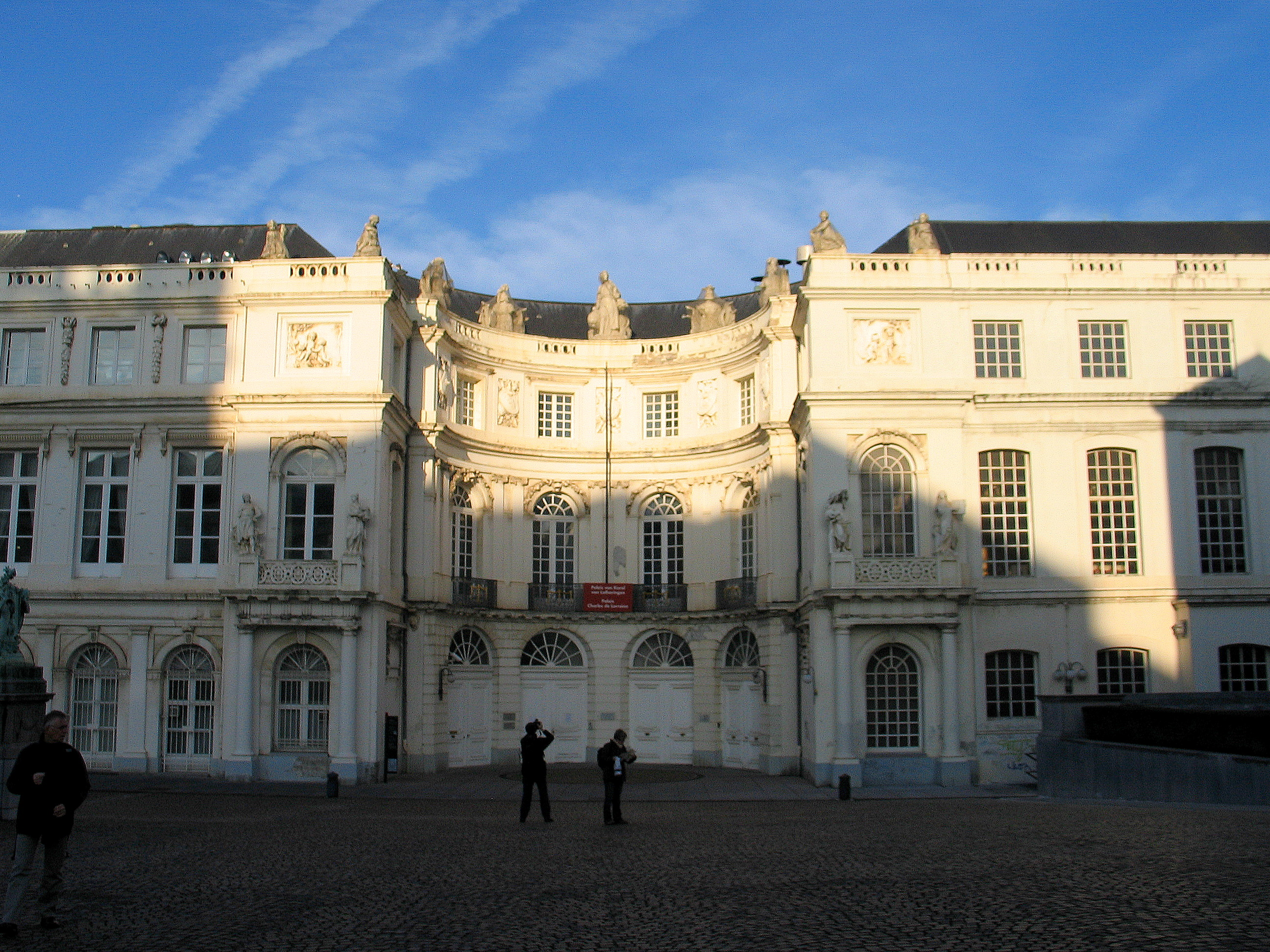 Palace of Prince Charles Alexander of Lorraine in Brussels, Belgium